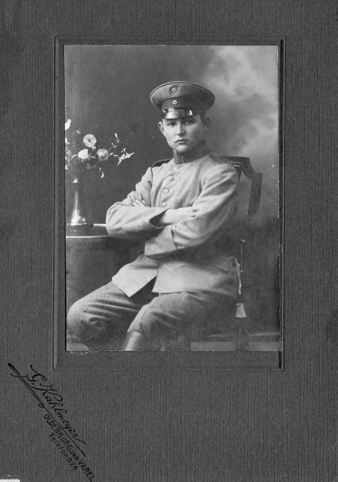 Mounted rifleman (Jäger) Gerhard Wiechmann (1895-1978). 6th Mounted Rifles, Erfurt. The picture was taken by Georg Kahlmeyer, Oldenburg in Oldenburg, on march 17th 1917, supposedly on the occasion of a vacation from the Eastern Front. Wiechmann was a member of the regiment from december 1916 until december 22th 1918.